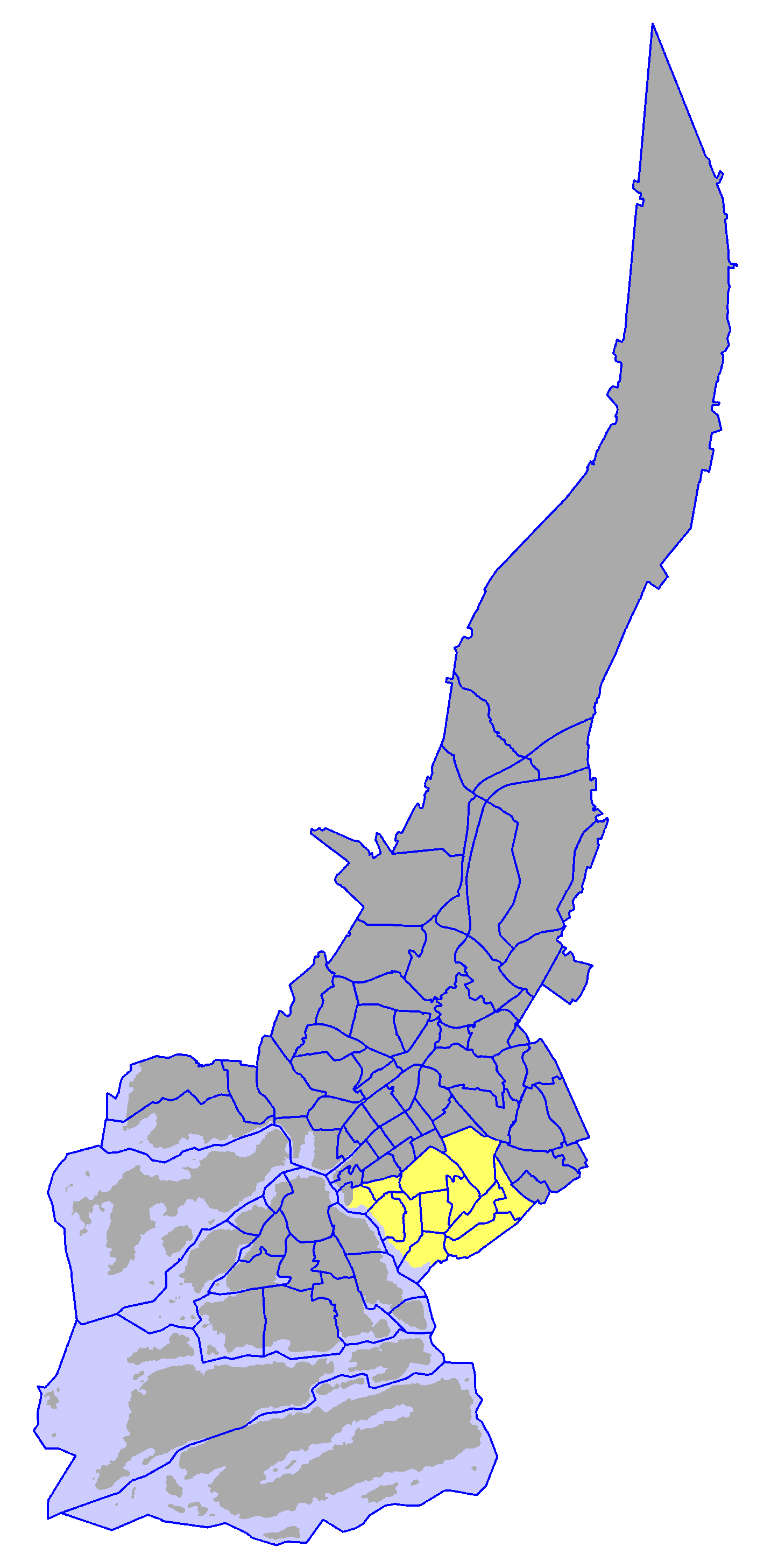 Ward of Uittamo-Skanssi, in Turku